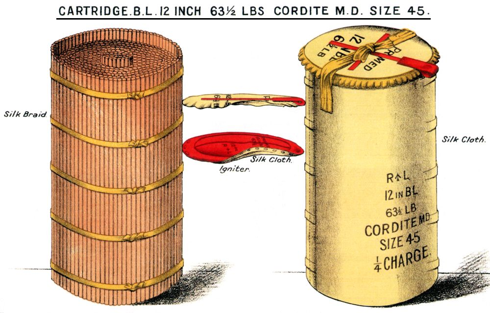 Diagram of British 63 1/2 lb 1/4 charge Cordite cartridge for BL 12 inch Mk IX naval guns of King Edward VII class. 63 1/2 lbs Cordite M.D. size 45. Length 18.8 inches, diameter 10.4 inches.